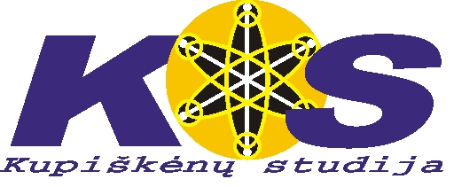 Logo of regional television channel „Kupiškėnų studija“.